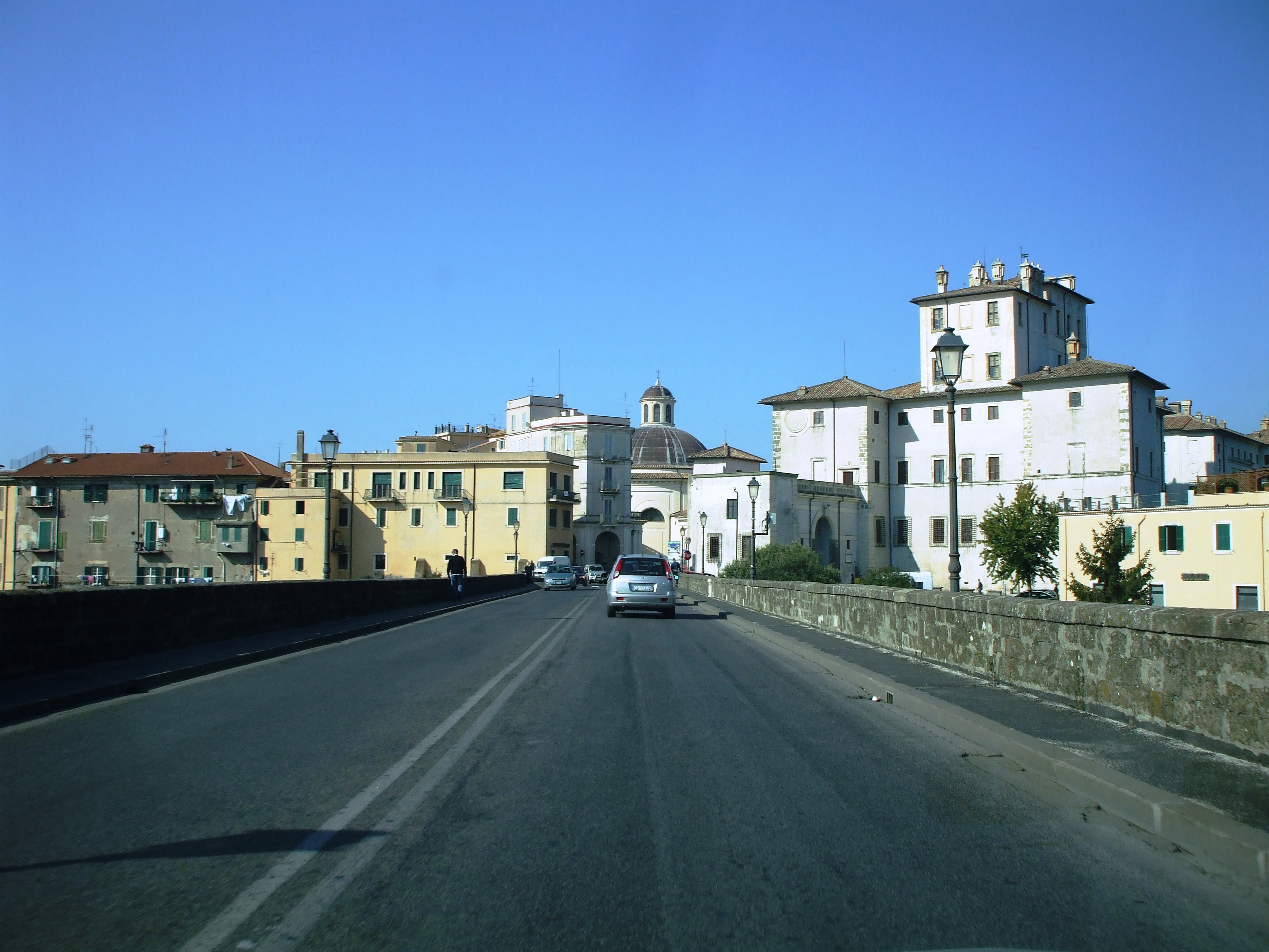 Ariccia - view